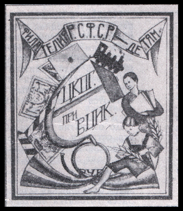 RSFSR CKPG stamp (project), 1922